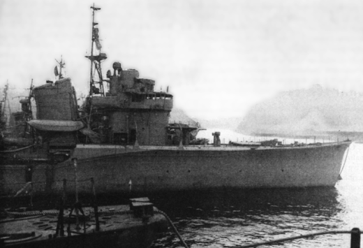 Imperial Japanese Navy destroyer Ushio